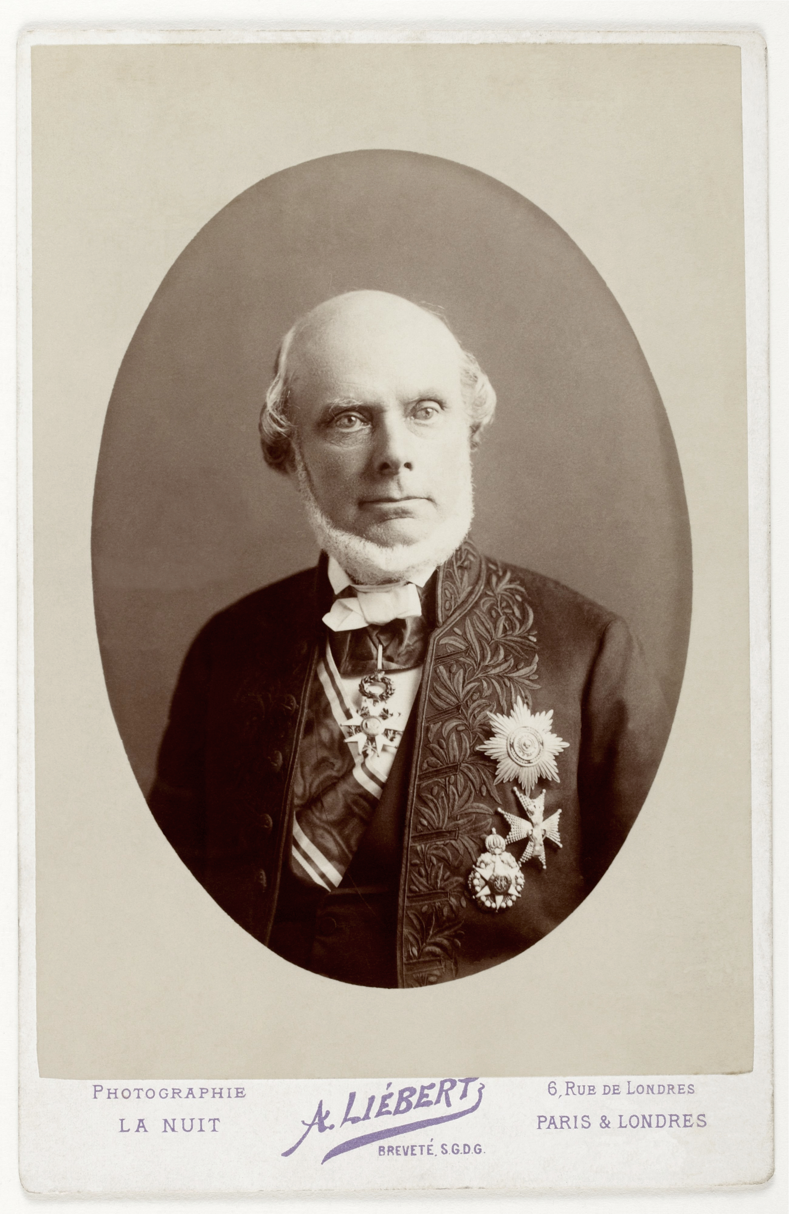 Jean Louis Armand de Quatrefages de Bréau (1810-1892), french biologist, zoologist, and anthropologist, member of the french Académie des Sciences (see his costume), and professor at the Muséum National d'Histoire Naturelle in Paris.